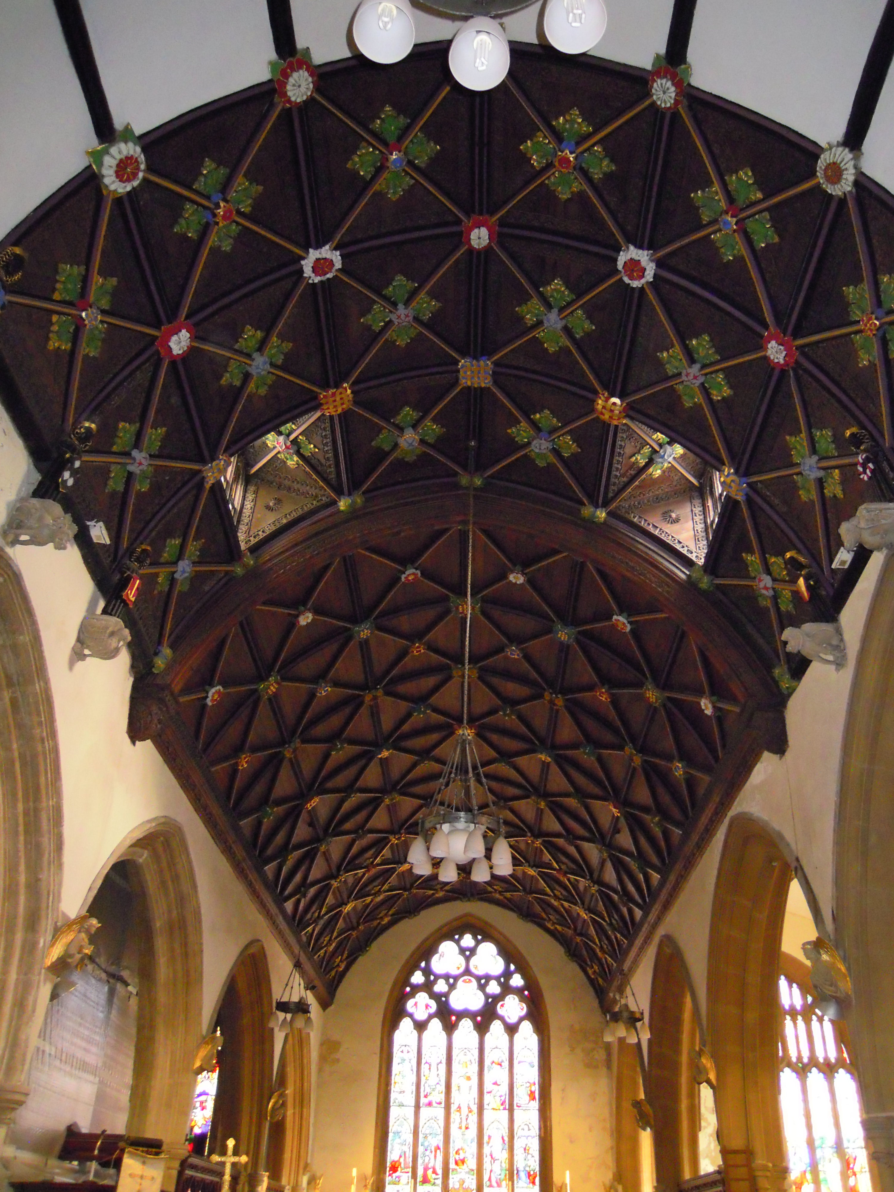 The 15th-century 'Glory' ceiling in Holy Trinity Church in Ilfracombe in Devon